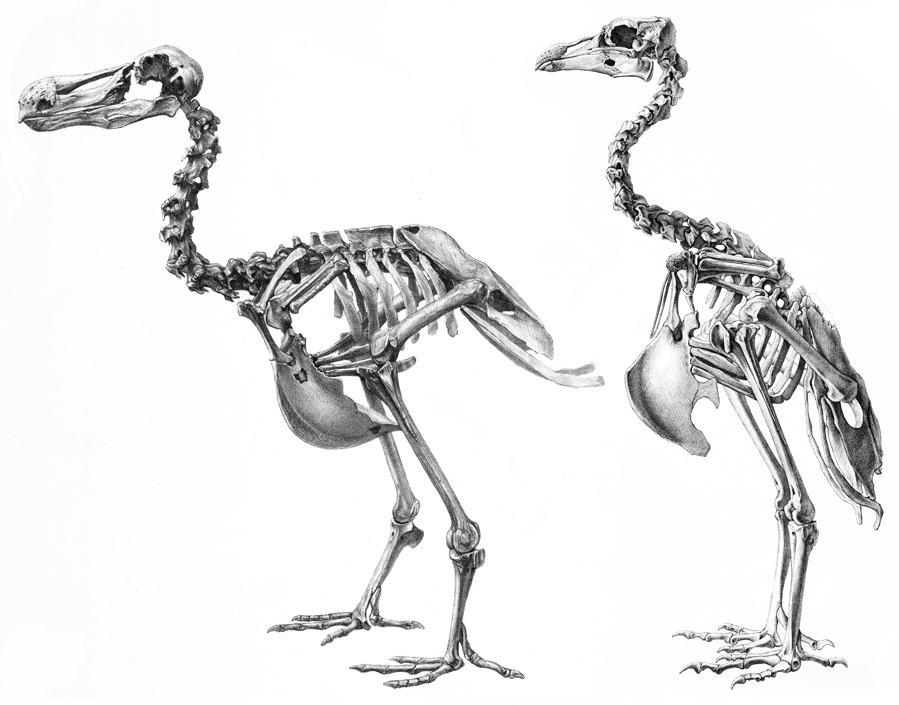 Skeleton of Raphus and Pezophaps compared, not to scale.